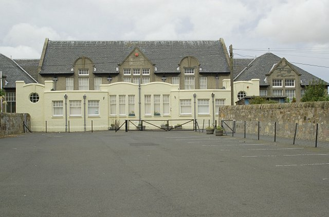 Pittenweem Primary School With a school roll of just under 100 pupils it's quite a large school. Situated on the northern edge of the village.